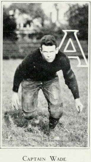 Vanderbilt football captain William "Pink" Wade circa 1921.